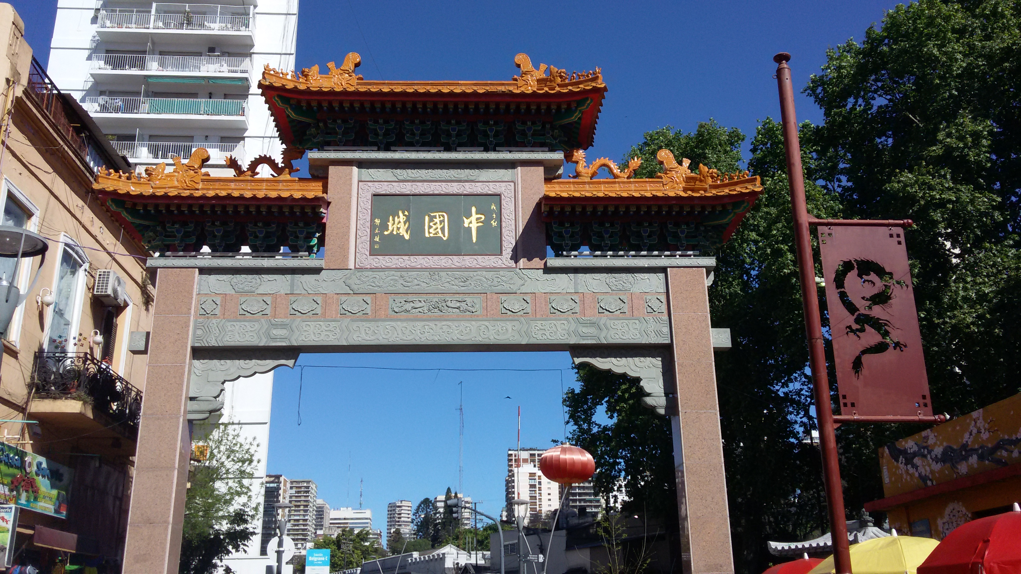 Entrance Arch of Barrio Chino at Arribeños street in Buenos Aires